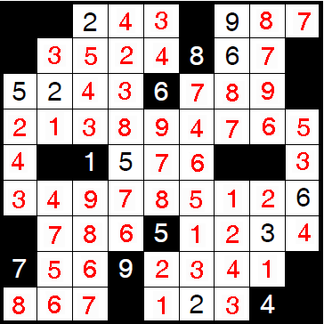 9x9 Str8ts Solution (Very Hard)